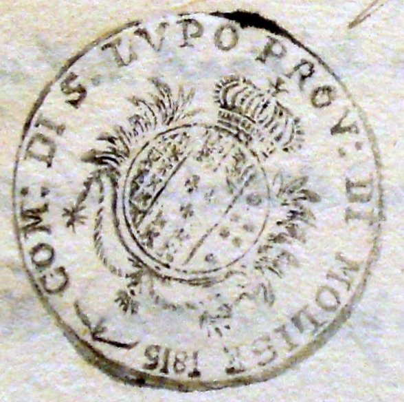 San Lupo town hall stamp (1815)